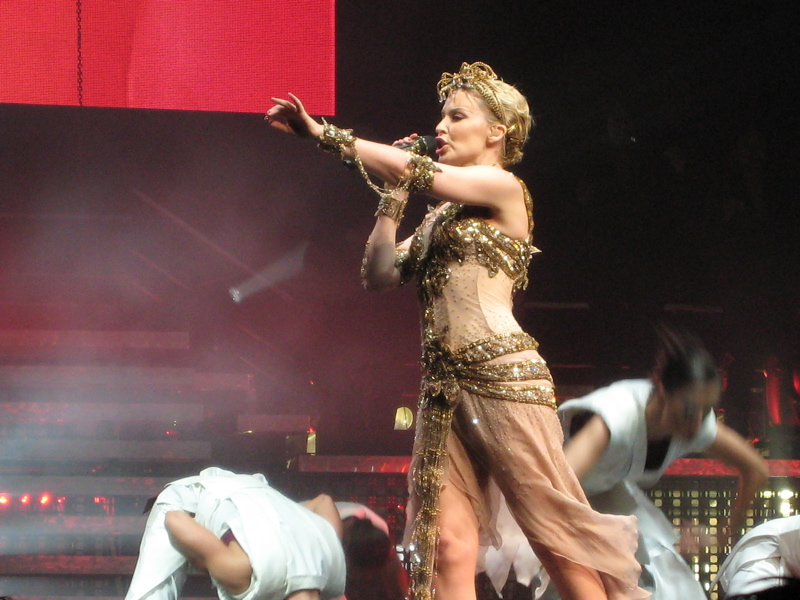 Kylie concert in manchester